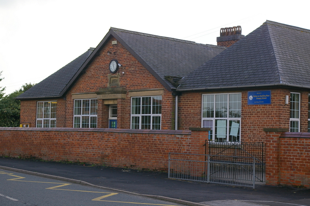 Holme on Spalding Moor Primary School, Holme-on-Spalding-Moor, East Riding of Yorkshire, England.